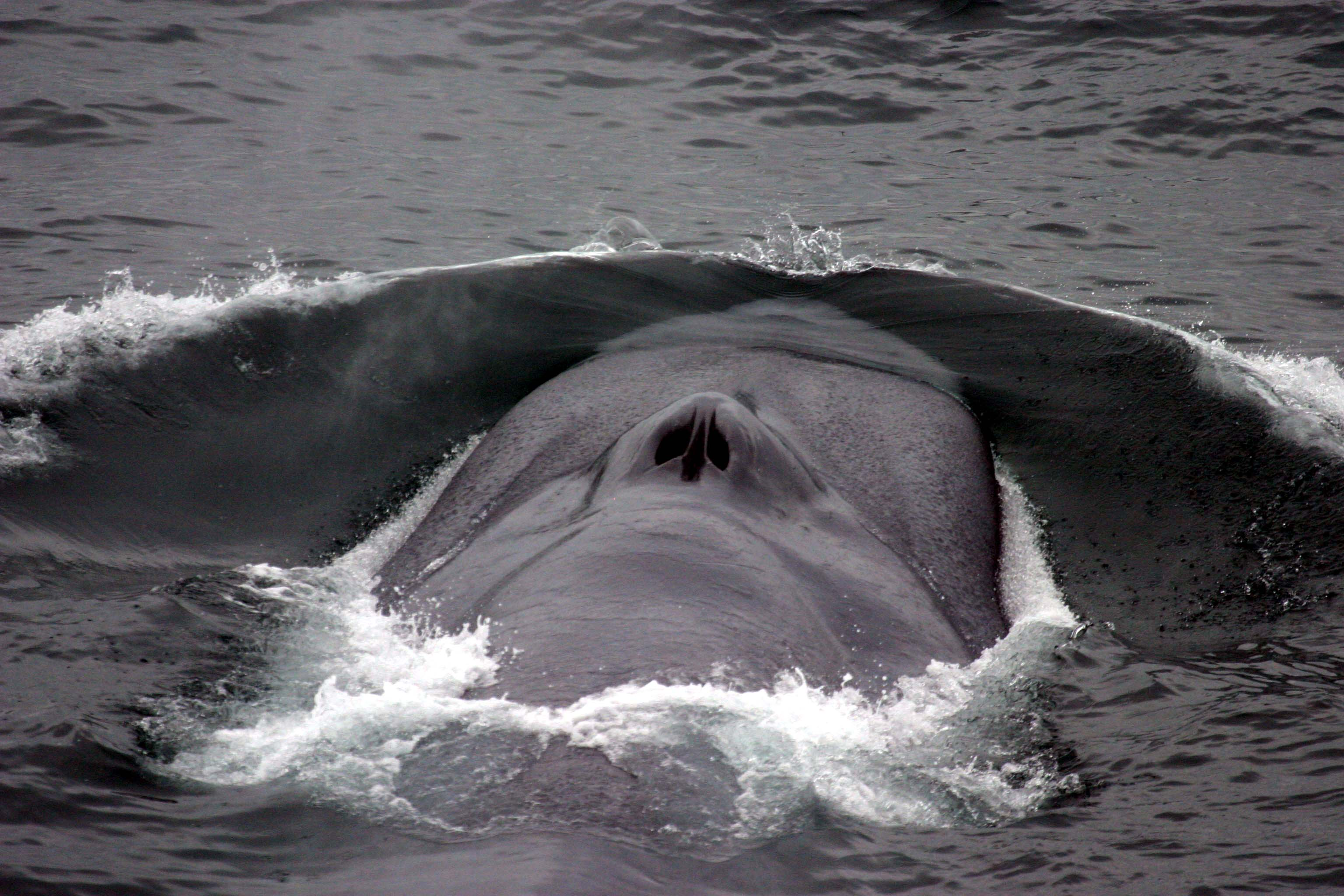 Blue whale (Balaenoptera musculus) with its bow wave, showing the blowhole.